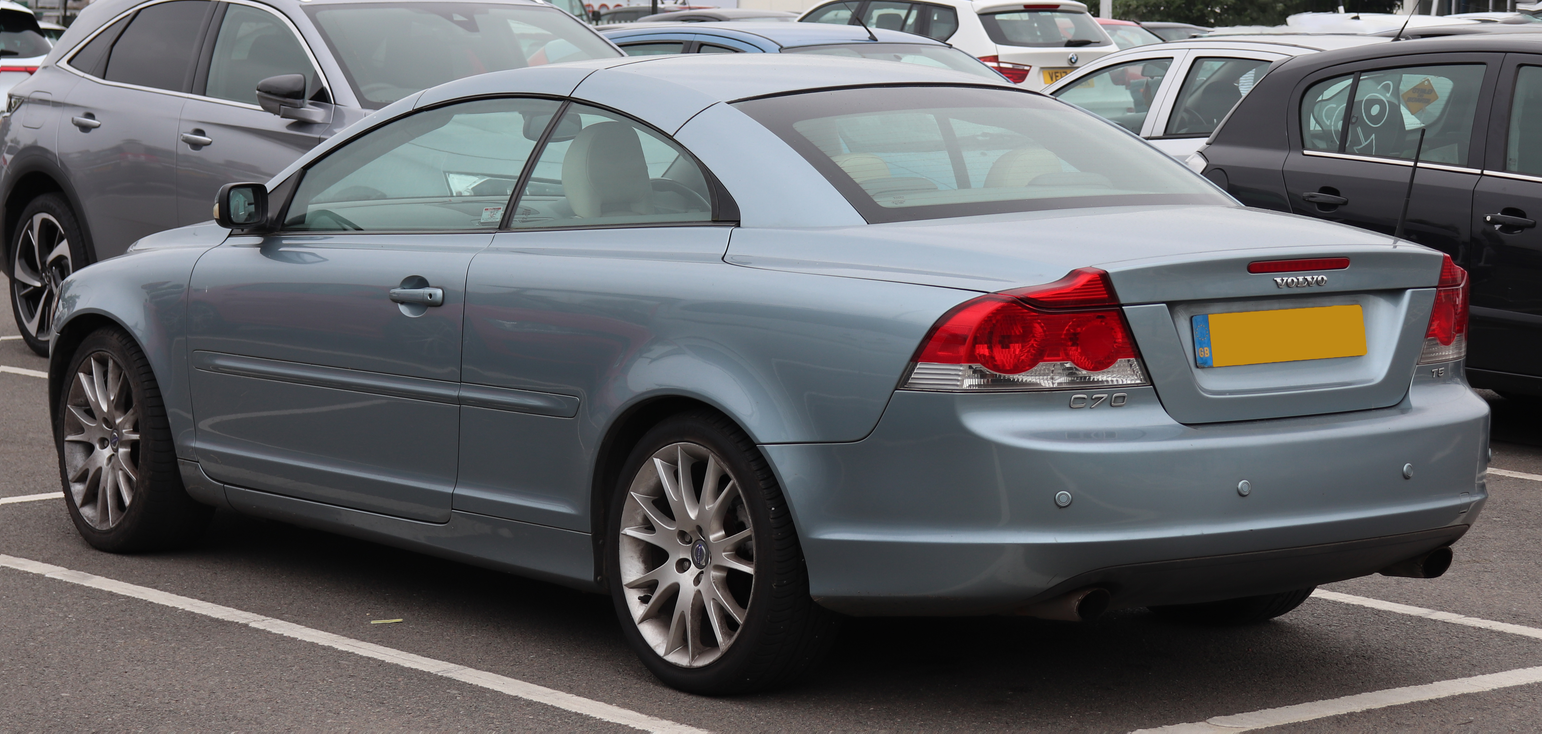 2006 Volvo C70 SE LUX T5 Automatic 2.5 Rear Taken in Leamington Spa